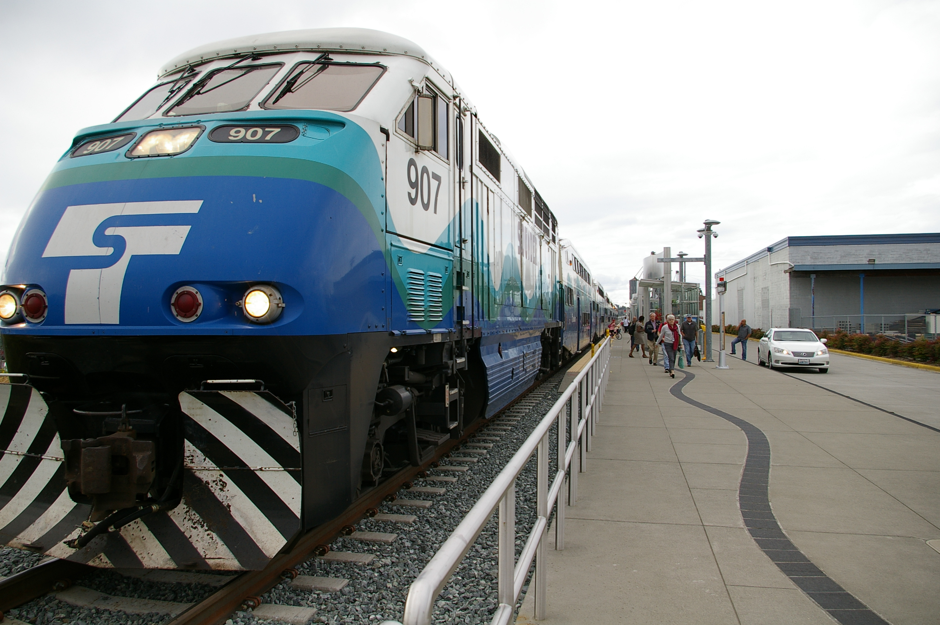 South Tacoma Station with Sounder #907